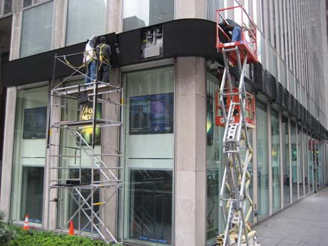 Workers installing a new ticker outside of FOX News Channel headquarters in New York City